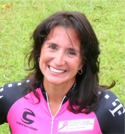 Maria Parker, ultracycling champion